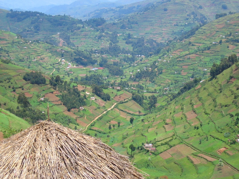 (Kabale_landscape,own work,10/22/05,Edirisa)